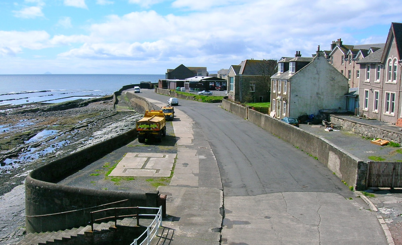 Saltcoats. Site of canal linked railway and later railway to the harbour. North Ayrshire, Scotland.